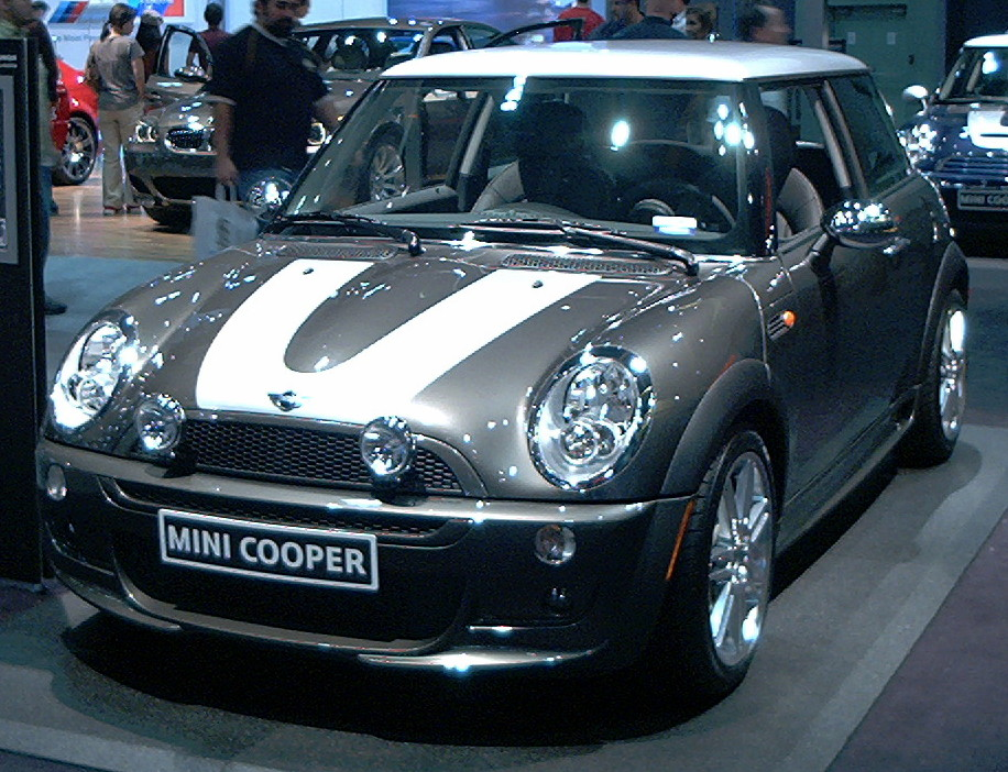 A MINI Cooper at the 2006 Greater Los Angeles Auto Show. (Photo taken by Covinan)